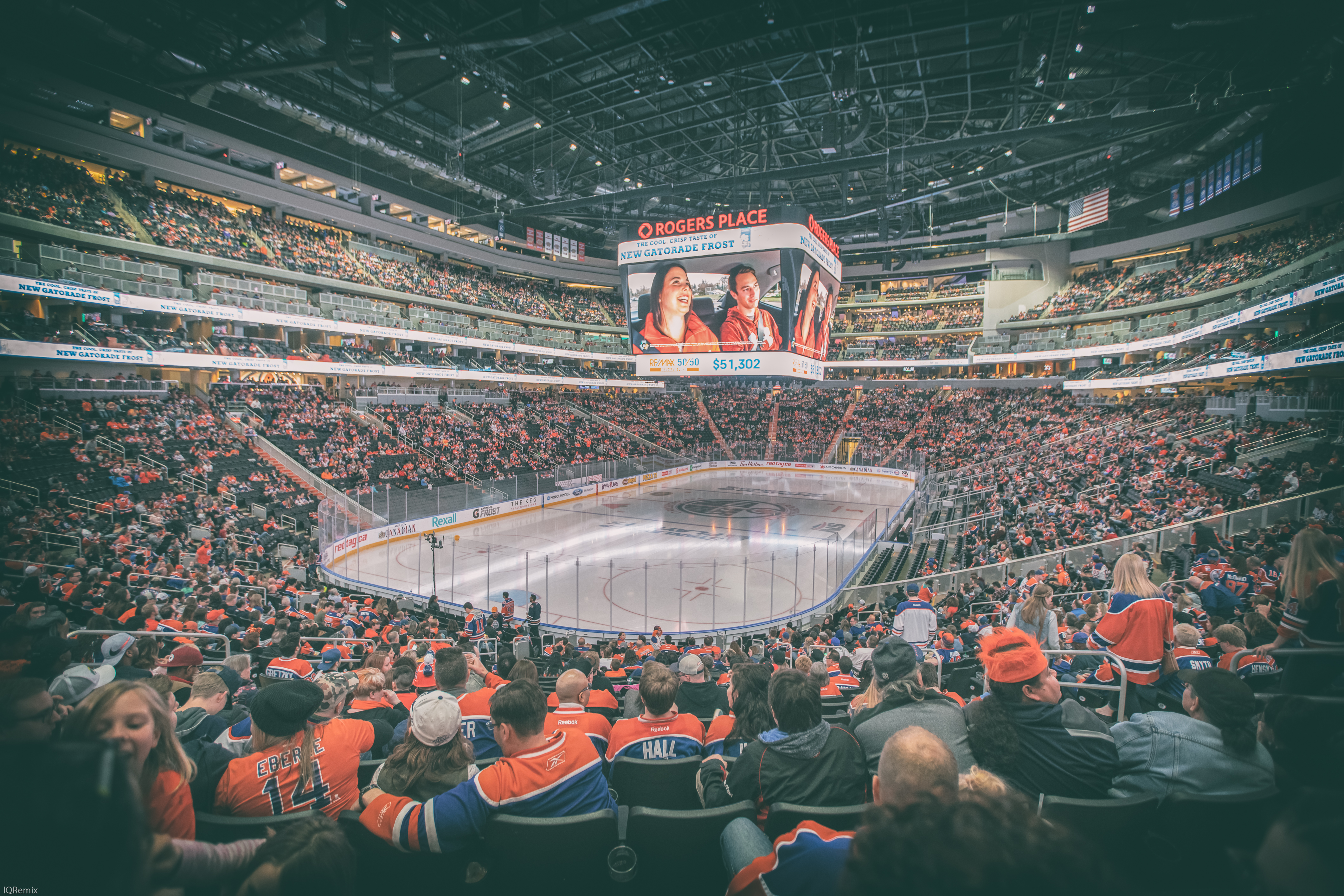 Edmonton Oilers 2017 Playoff Scene